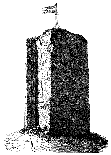 Kärnan tower in Helsingborg, Sweden